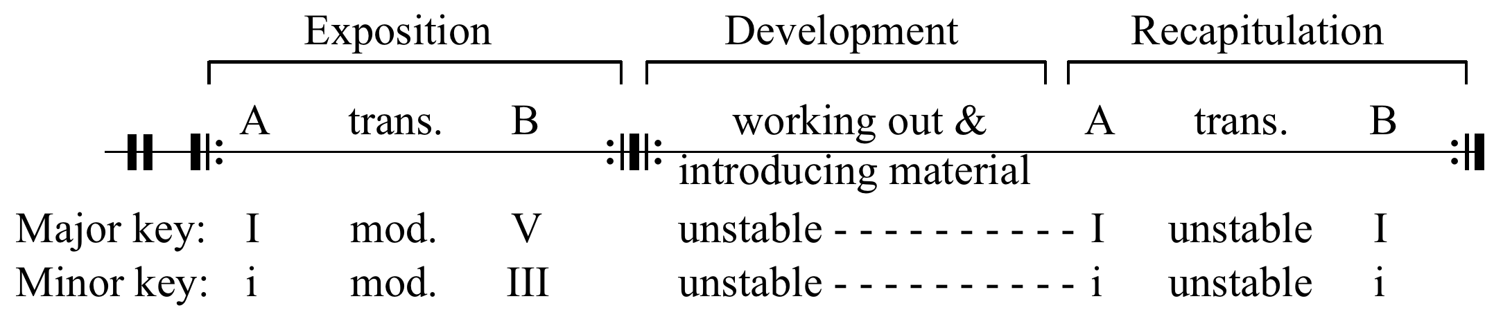 "Early examples of sonata form resemble two-reprise continuous ternary form." After ISBN 0-07-300056-6.